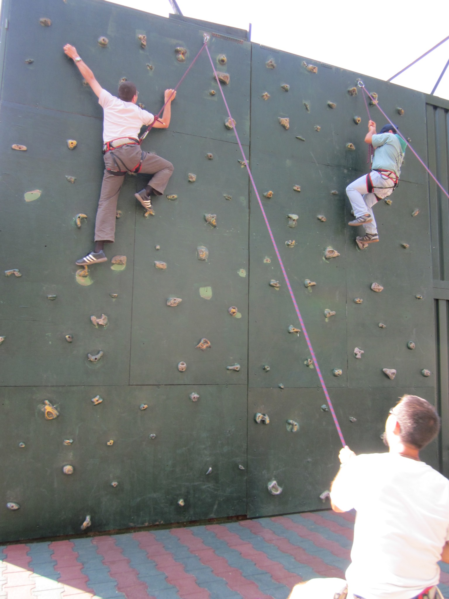 Climb